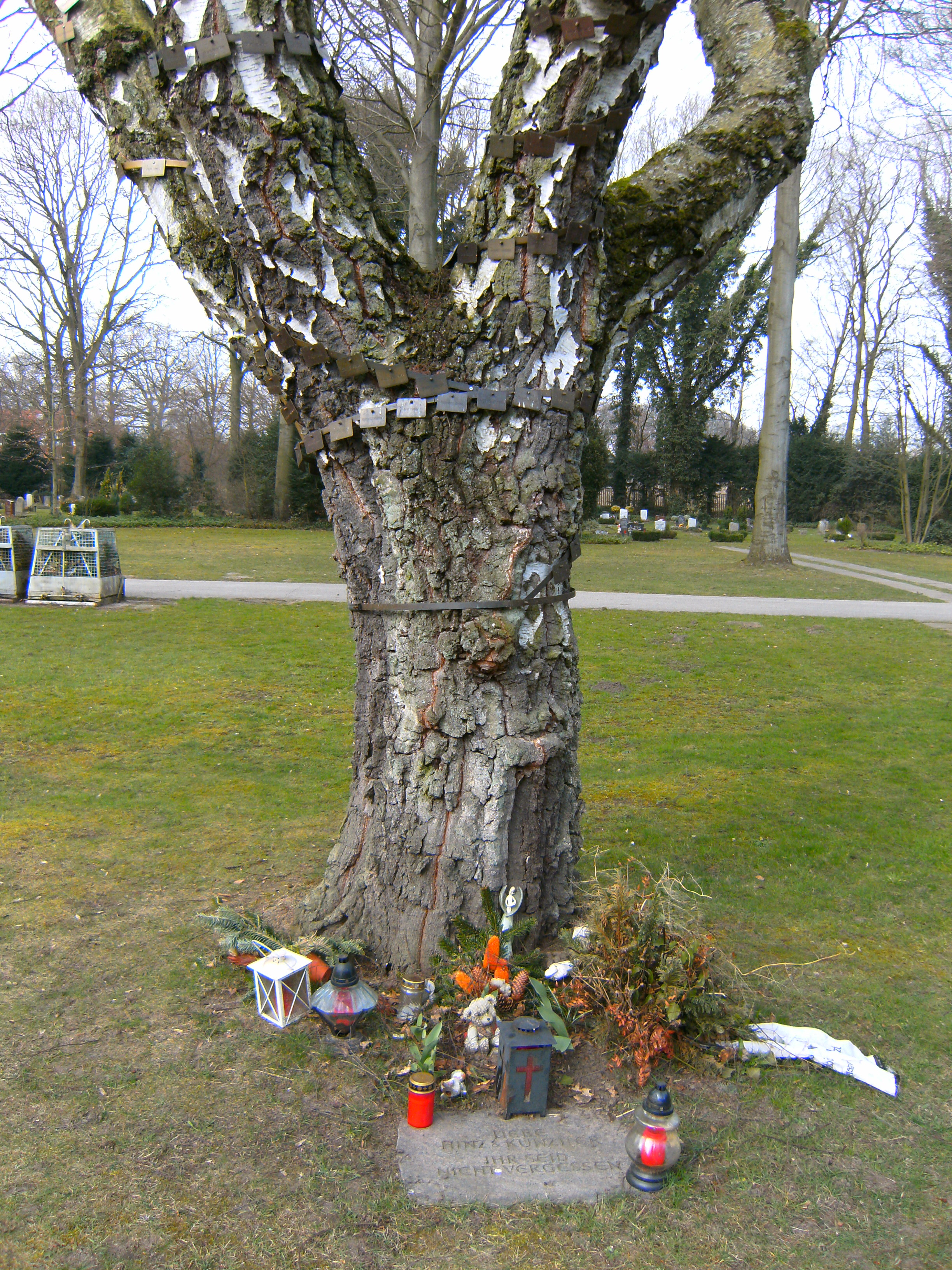 Birch tree in Öjendorfer Friedhof (cemetery), area 318, with name plates of deceased homeless people, who sold magazine Hinz und Kunzt on street in Hamburg. In the year 2014.